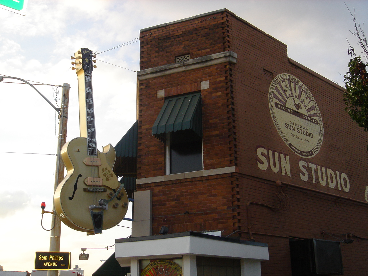 Studio at junction of Sam Phillips Avenue, Memphis